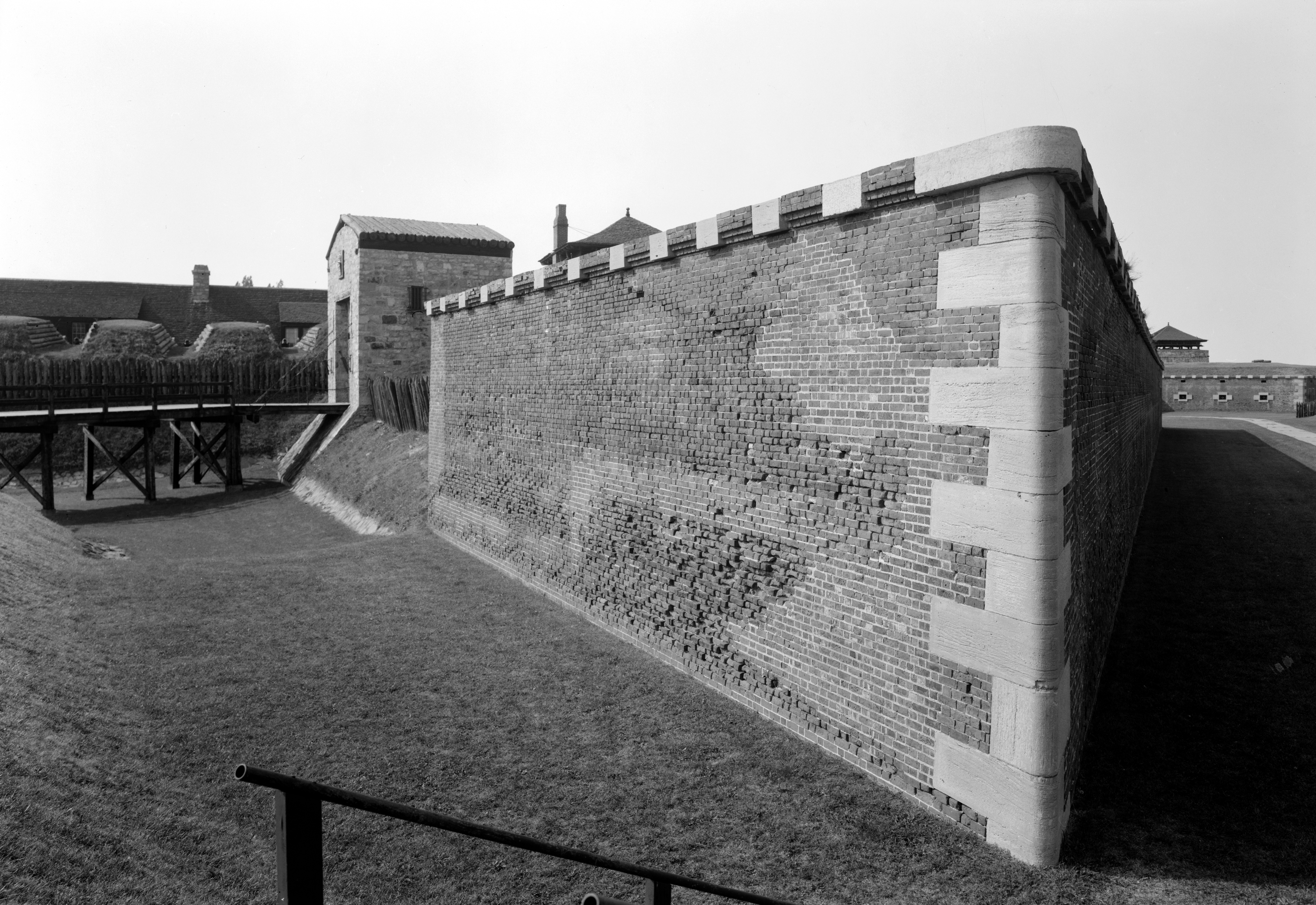 Fort Niagara, photo taken in October, 1967. GENERAL VIEW OF BASTION WITH ENTRANCE DRAWBRIDGE AND MOAT IN BACKGROUND HABS NY,32-YOUNG,1-5